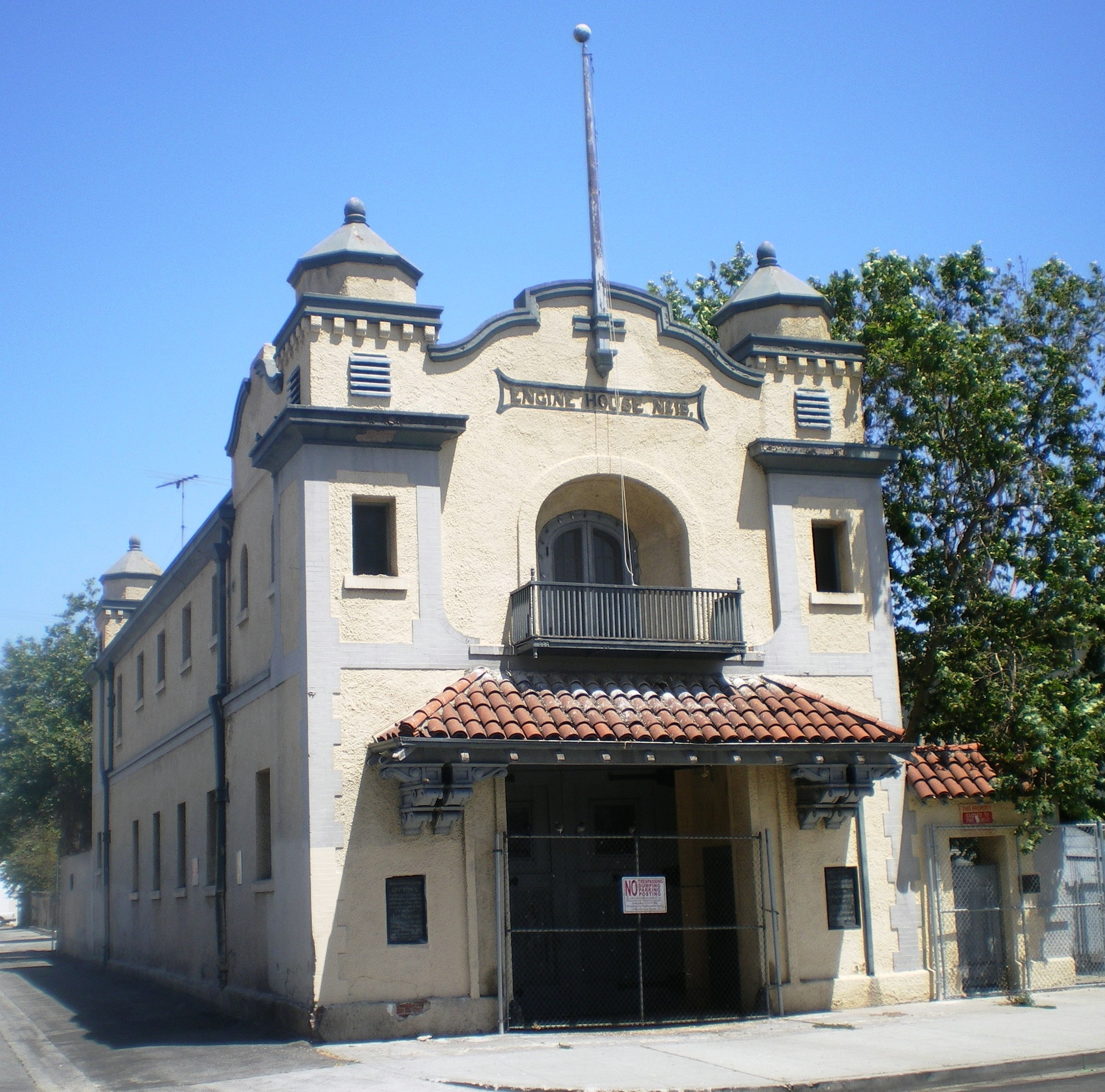 The Engine House No. 18 — 2616 S. Hobart Blvd., West Adams district, Los Angeles, California. The 1904 Mission Revival style fire house was designed by John Parkinson. A Los Angeles Historic-Cultural Monument, and on the National Register of Historic Places in Los Angeles.